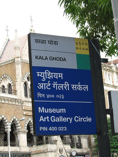 clicked by me at mumbai.